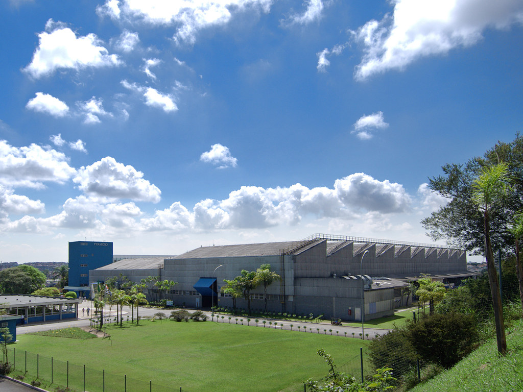 External front view of Toledo do Brasil´s plant